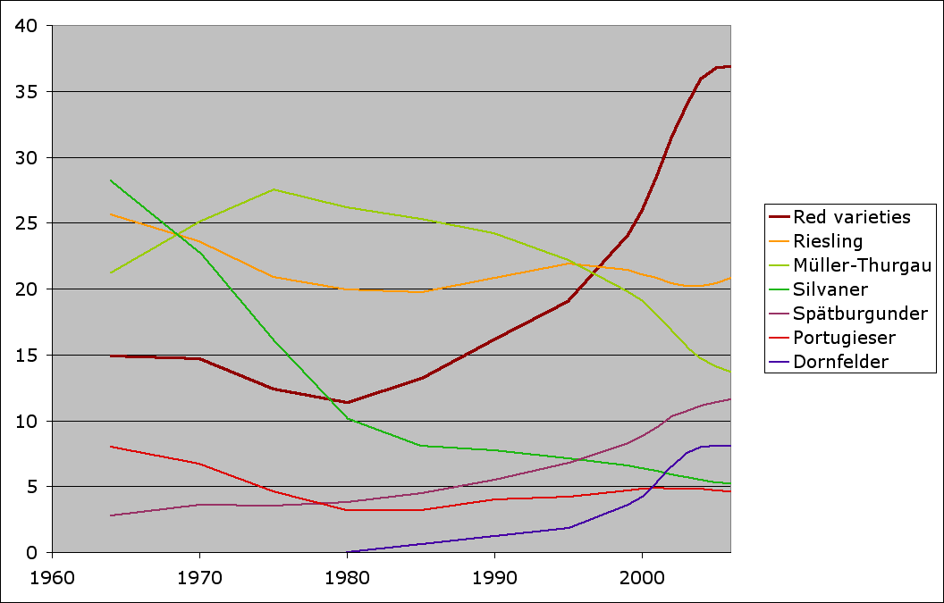 Distribution of common grape varities in Germany, 1964-2006, using data from German Wine Statistics published annually by the German Wine Institute